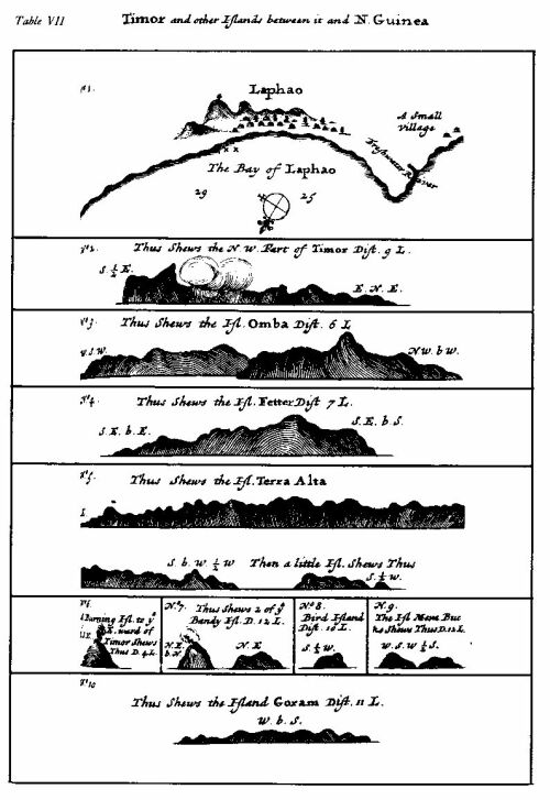 A Continuation of a Voyage to New Holland